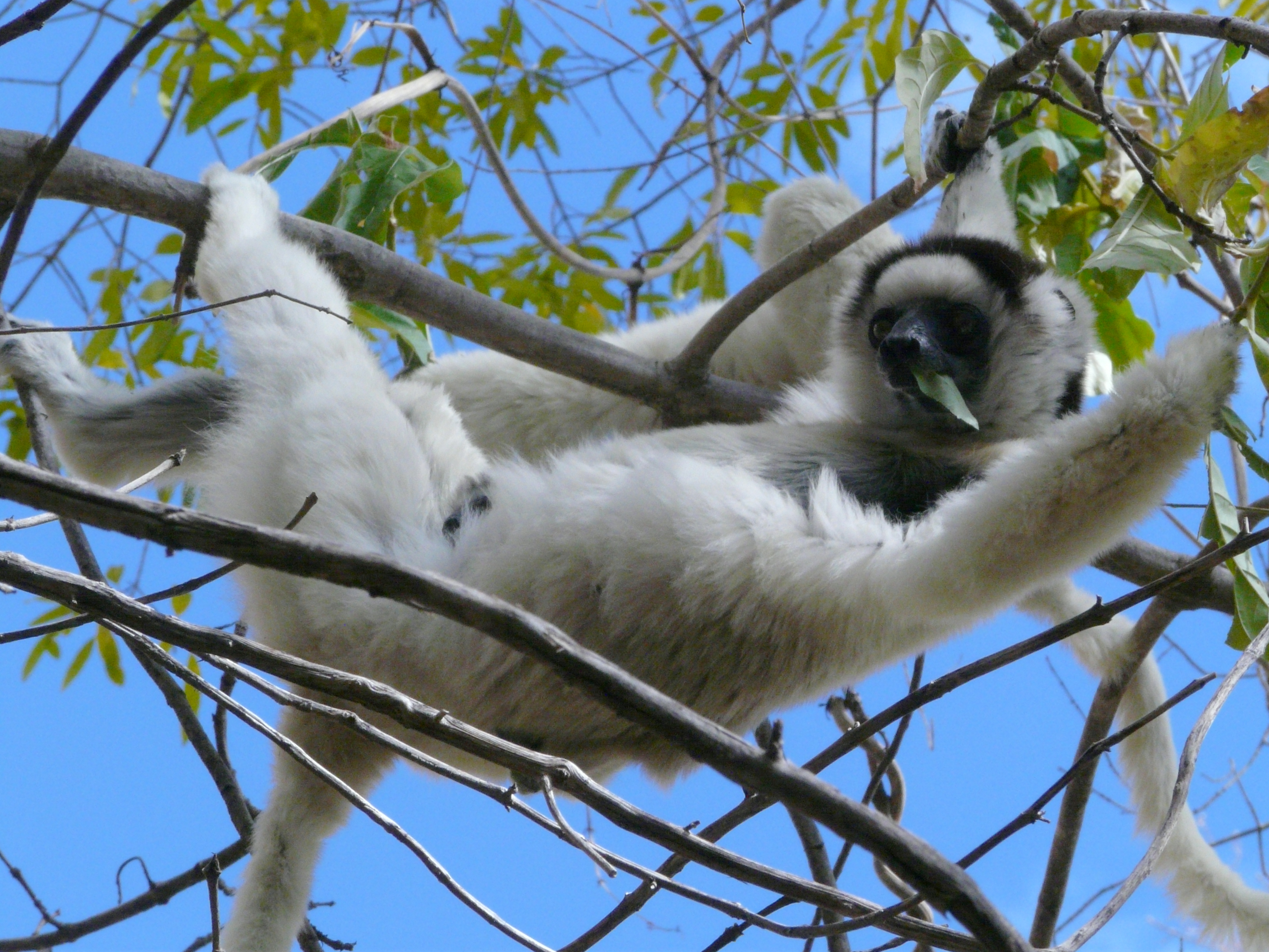 Propithecus